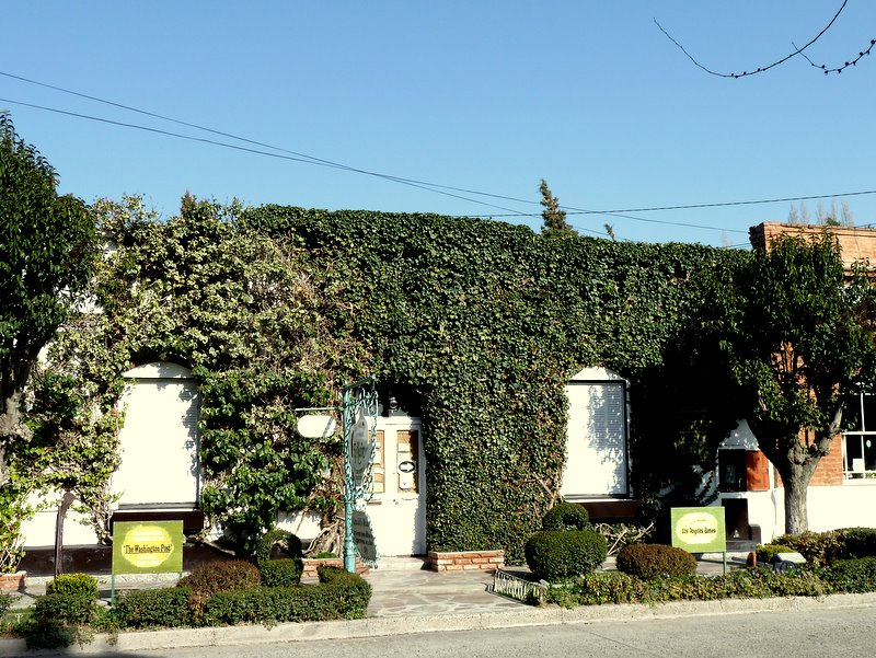 Ty Nain Tea House and Museum. Gaiman, Chubut Province, Argentina.